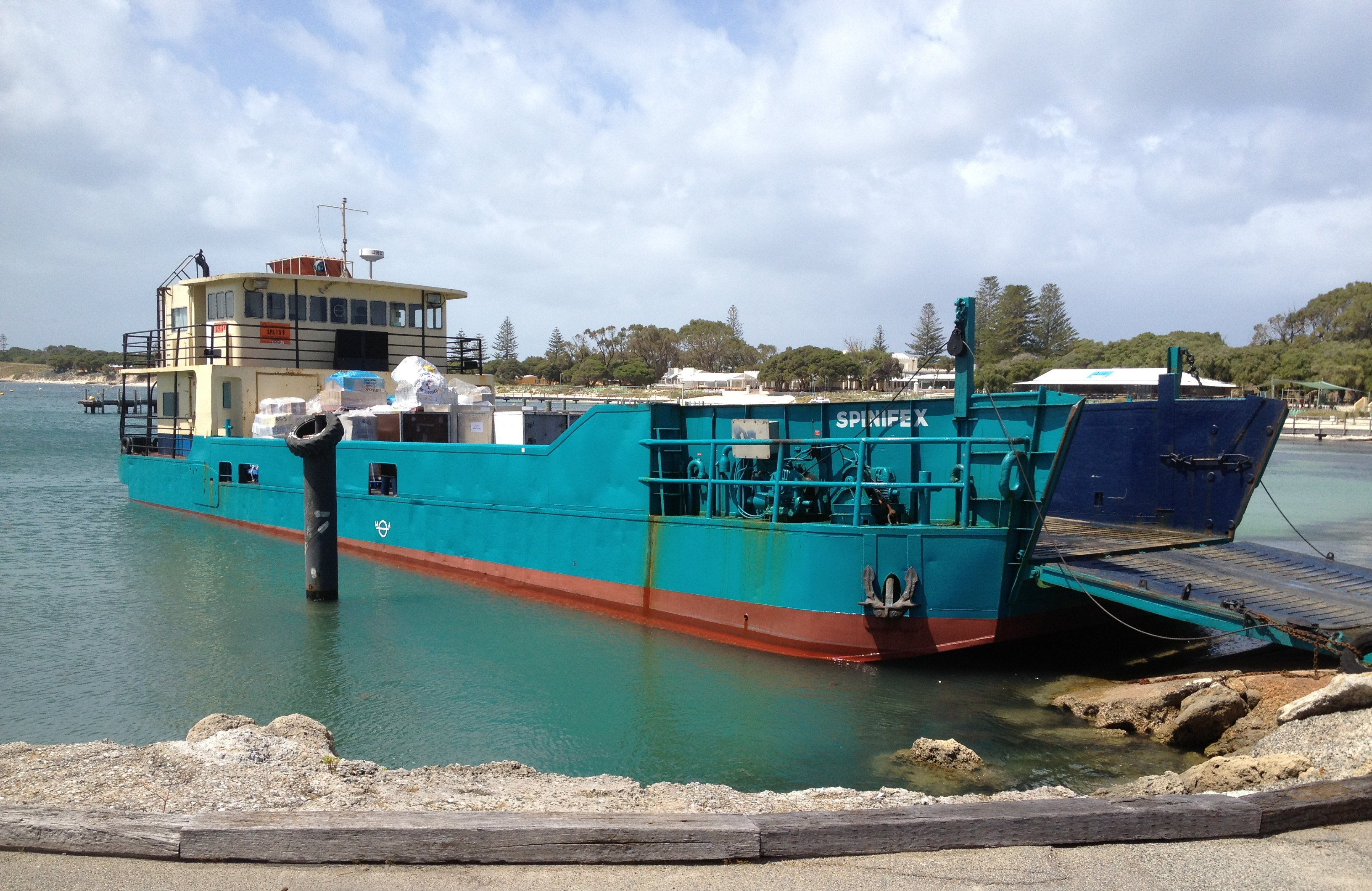 Rottnest barge "Spinifex"